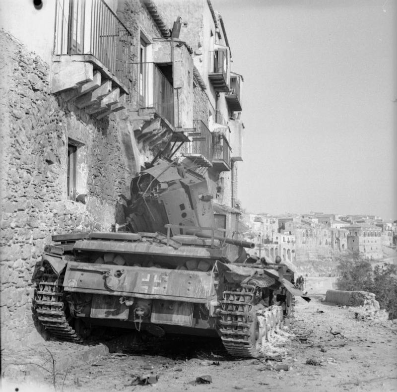 A German Mk III tank knocked out during the fierce street fighting in Centuripe 1943